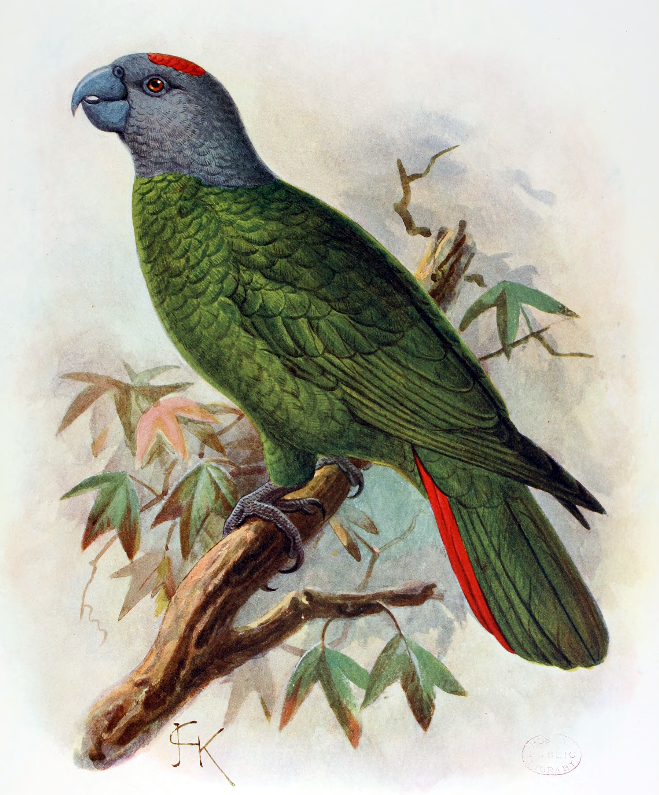 The Martinique Amazon, Amazona martinicana, was a species of parrot in the Psittacidae family. It was endemic to Martinique.